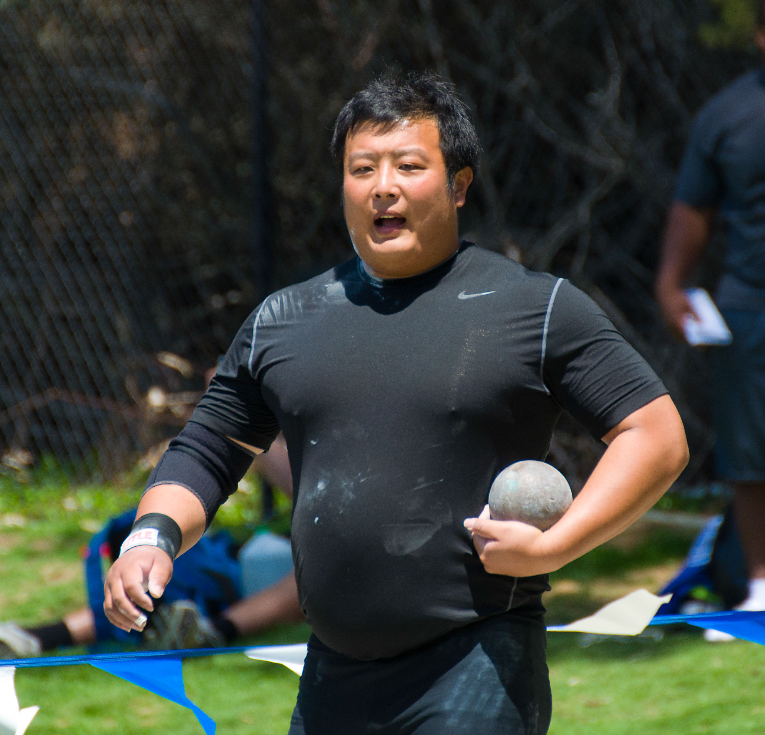 Threw 63-02.75 (athlete)